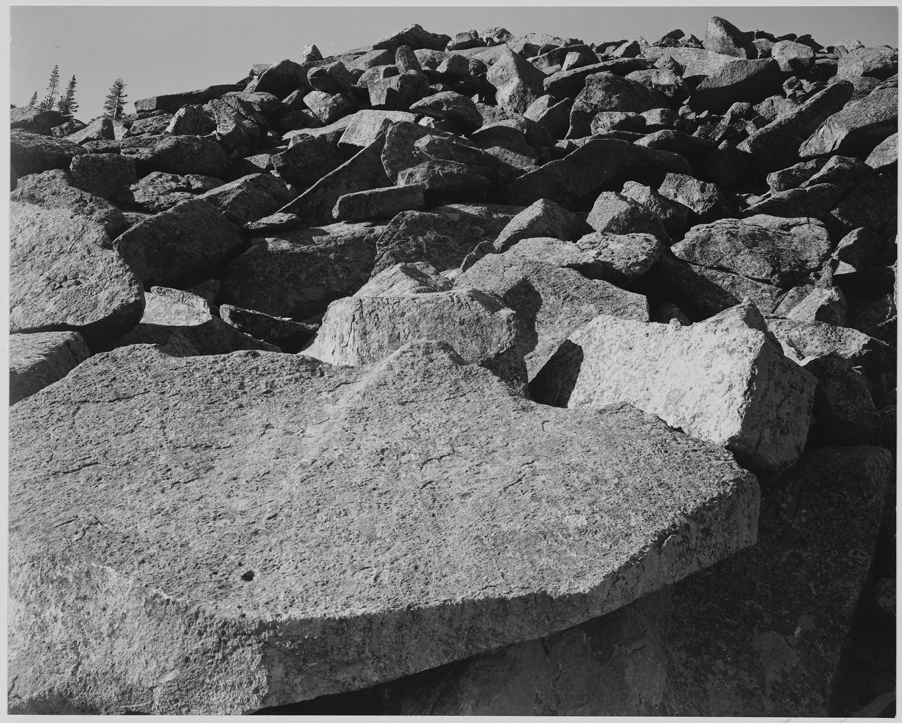 Rock formation, "Moraine, Rocky Mountain National Park," Colorado; From the series Ansel Adams Photographs of National Parks and Monuments, compiled 1941 - 1942, documenting the period ca. 1933 - 1942.